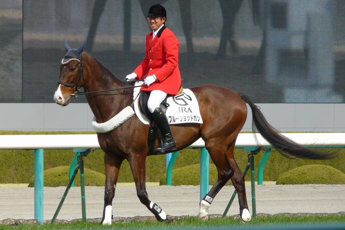 Blue-Shotgun20110227